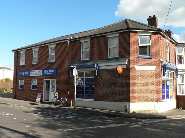 Bartley: shop/post office In the 2008 round of post office closures, in which 2,500 branches closed nationwide, both this office and the one at Cadnam, under a mile away, were spared the chop – I would say that the survival of both branches is quite surprising.